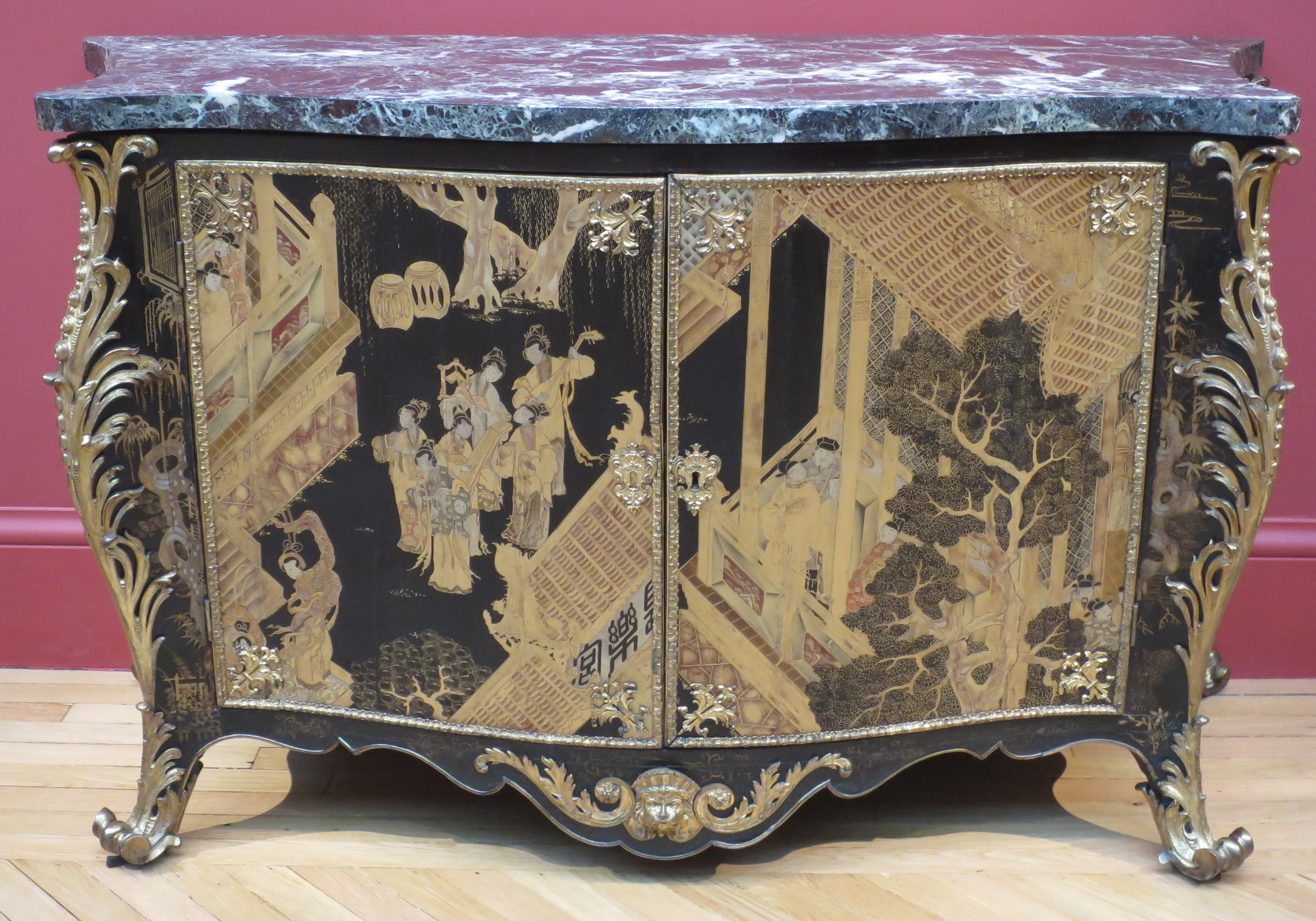 Commode by Pierre Langlois, 1763, Chinese lacquer, japanning, brass mounts, and verde antico marble, California Palace of the Legion of Honor